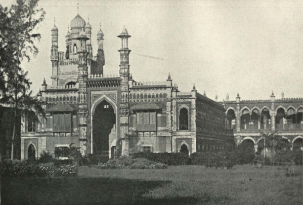 On the death of the last Nawab of the Carnatic this fine old palace, built in the Moorish style, became Government property, and is now occupied as the Beard of Revenue Offices.